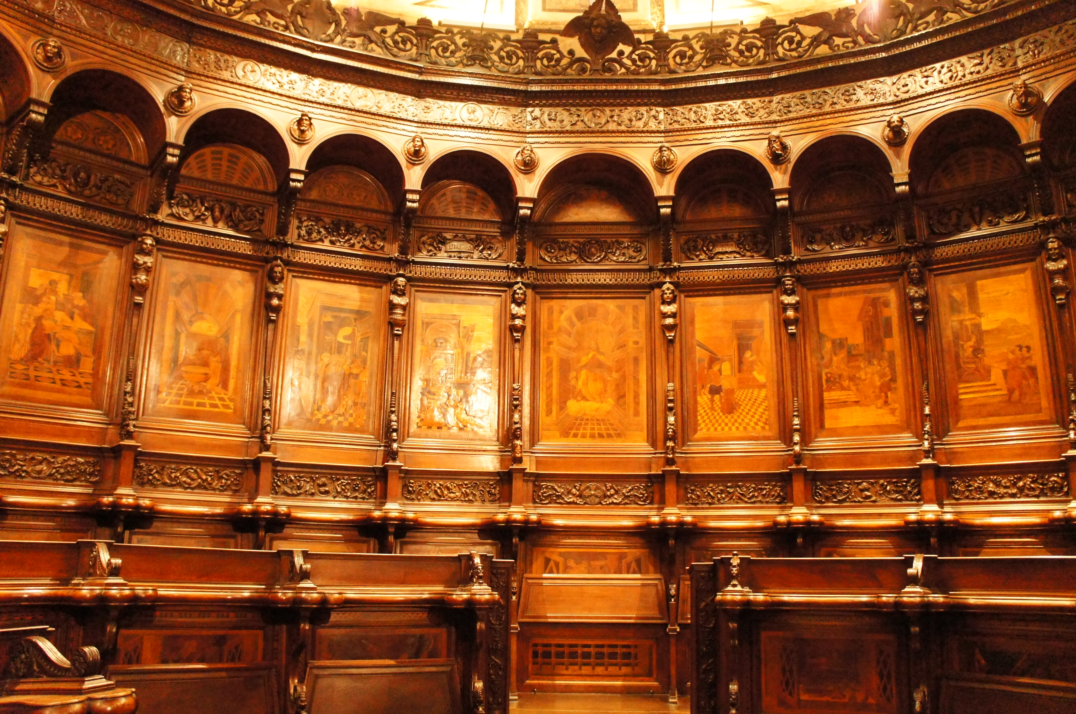 Choir of the Cathedral of San Lorenzo, Genoa